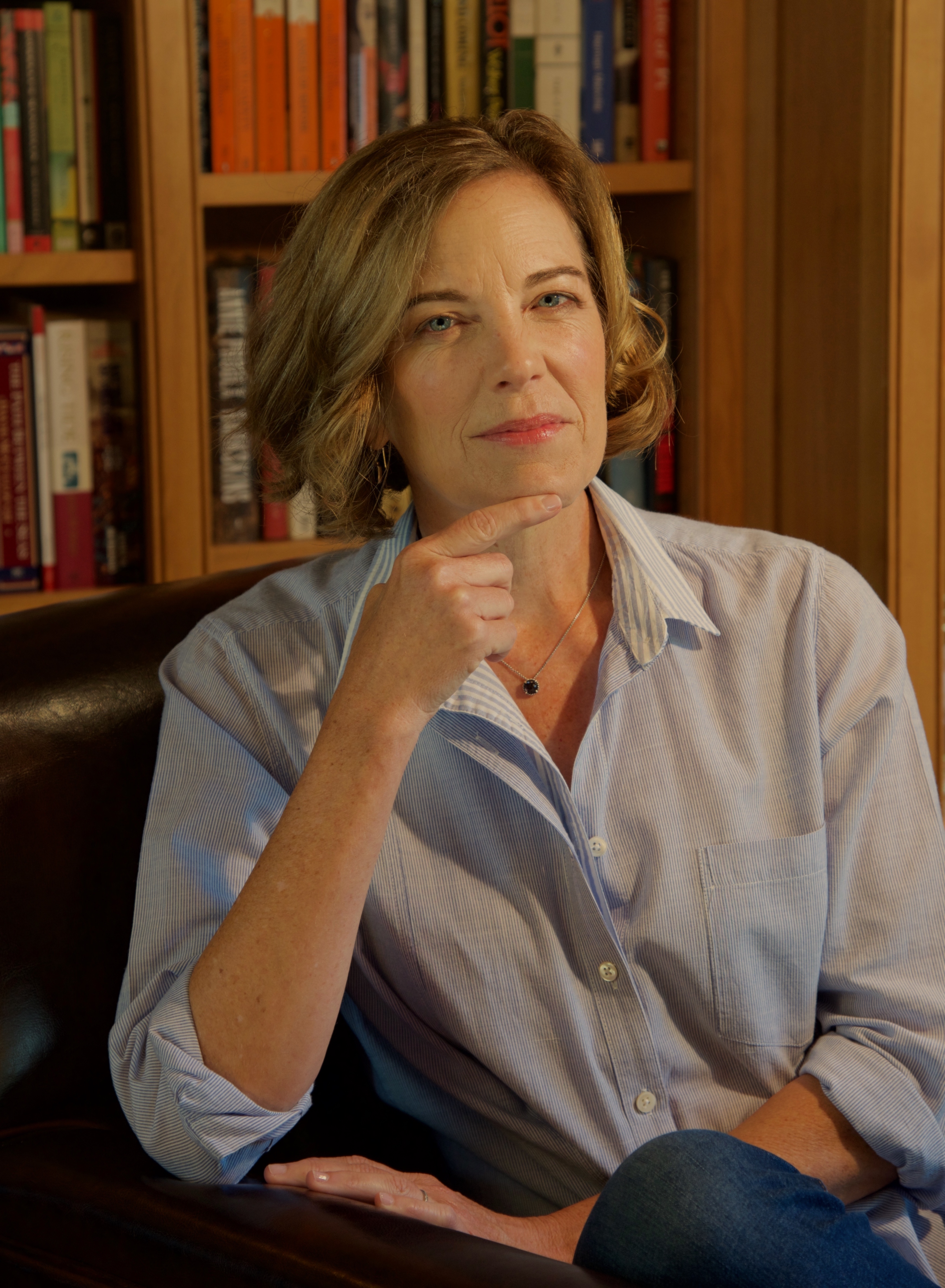 Kim Brown Seely, Author, catalogue photo for Portland Book Festival 2019